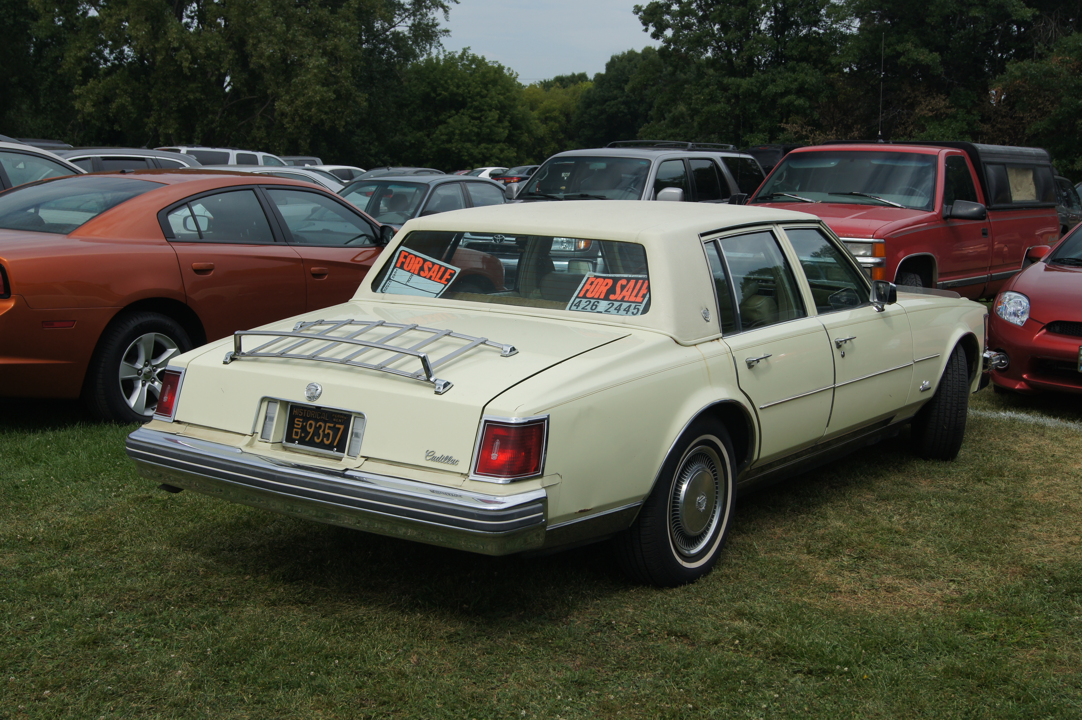 28th Annual New London to New Brighton Antique Car Run Finish Stockyard Days Long Lake Regional Park New Brighton Minnesota Mile 118.5 More Car Pictures